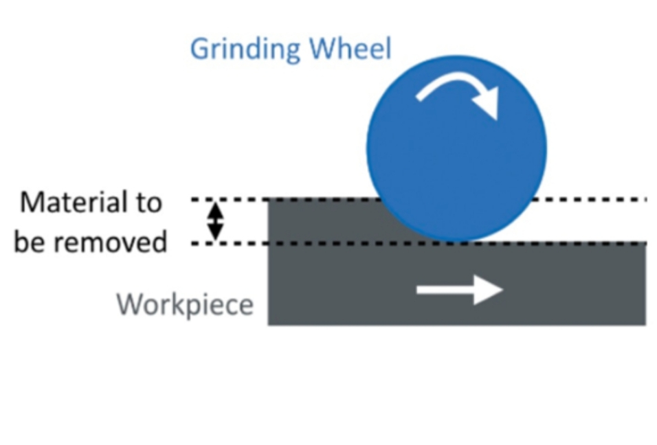 creep feed grinding